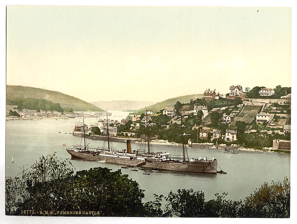 [R. M. S. "Pembroke Castle"] [between ca. 1890 and ca. 1900]. 1 photomechanical print : photochrom, color. Notes: Title from the Detroit Publishing Co., Catalogue J--foreign section, Detroit, Mich. : Detroit Publishing Company, 1905. Print no. "10771". Forms part of: Views of the British Isles, in the Photochrom print collection. Subjects: Ships. England. Format: Photochrom prints--Color--1890-1900. Repository: Library of Congress, Prints and Photographs Division, Washington, D.C. 20540 USA, Part Of: Views of the British Isles (DLC) 2002696059 More information about the Photochrom Print Collection is available at Higher resolution image is available (Persistent URL): Call Number: LOT 13415, no. 1109 [item]